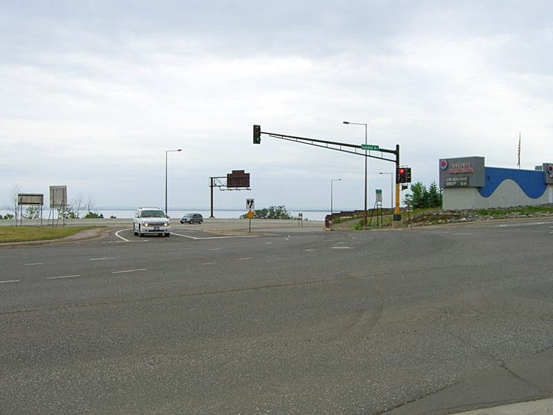 Northern terminus of Interstate 35 at London Road in Duluth, Minnesota. Lake Superior visible in background.